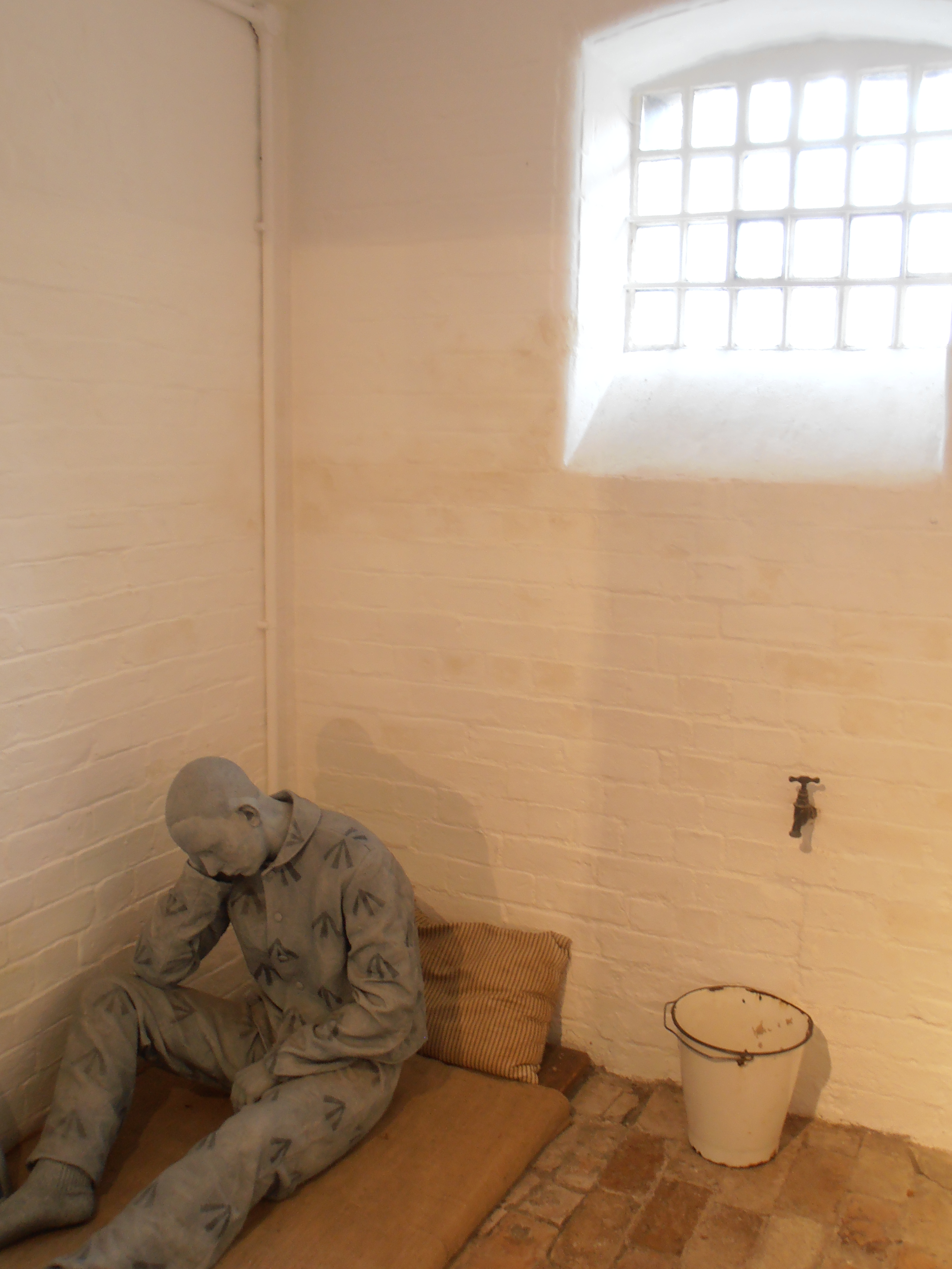 Ruthin Gaol. Grade 2*